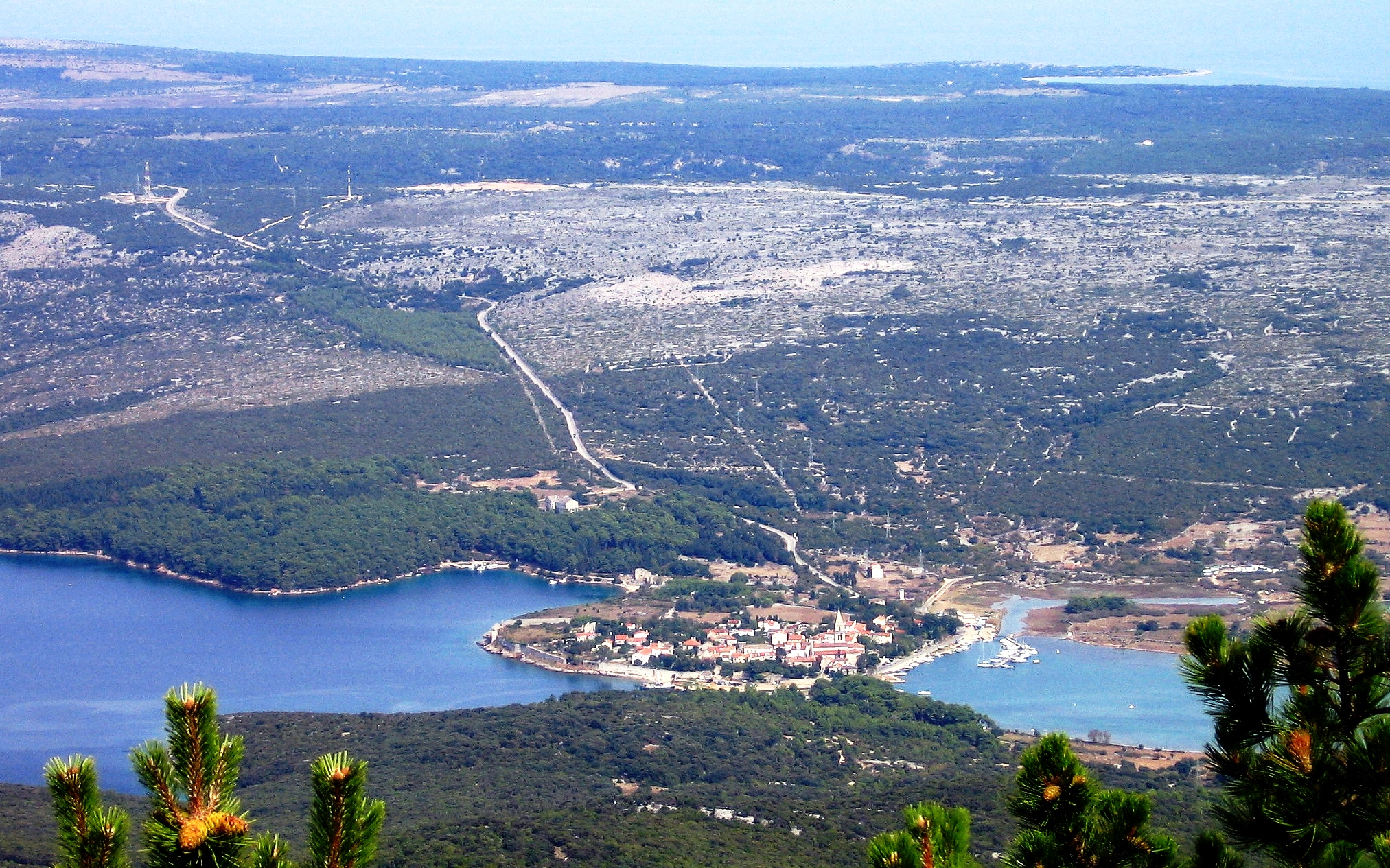 View on town Osor, between Cres and Lošnij islands